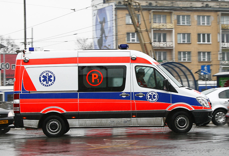 Mercedes-Benz Sprinter/2009 Basic Ambulance in city Bydgoszcz Engeenering: Auto Form